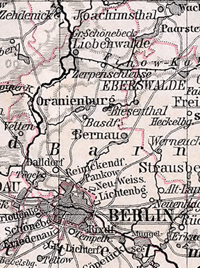 Detail from a map of Brandenburg.